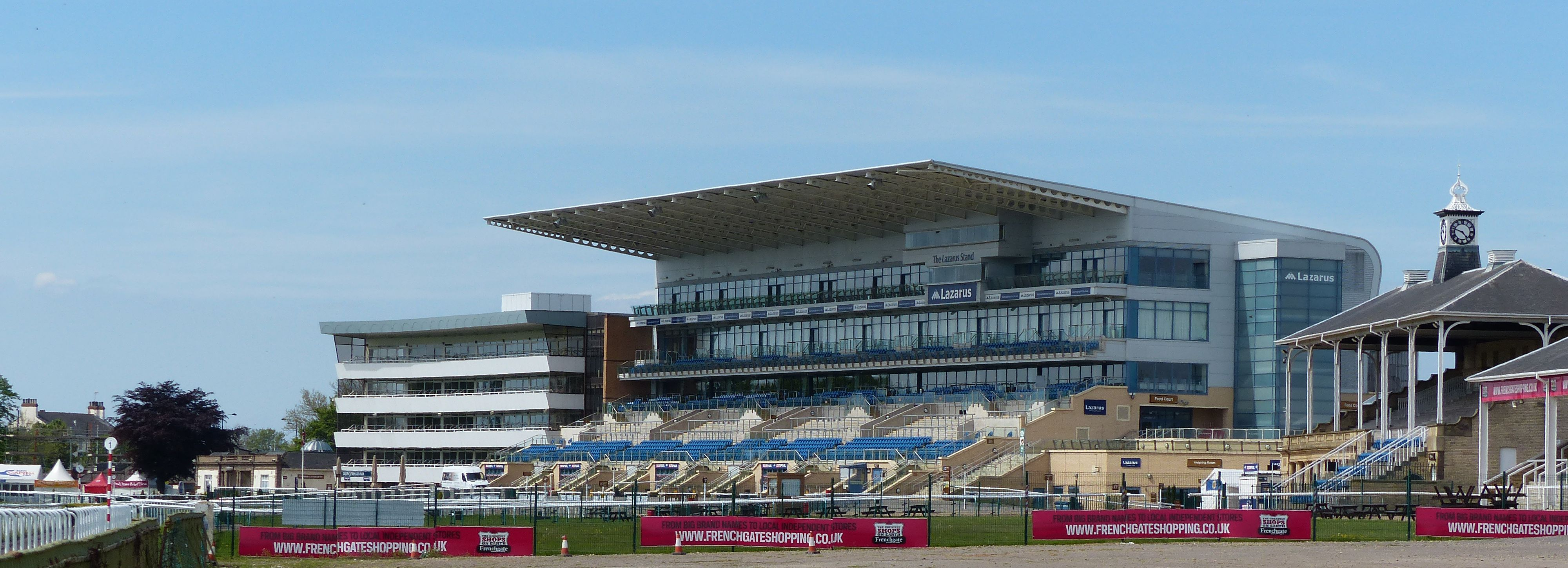 The Grandstand at Doncaster Racecourse. Home of the St. Leger.